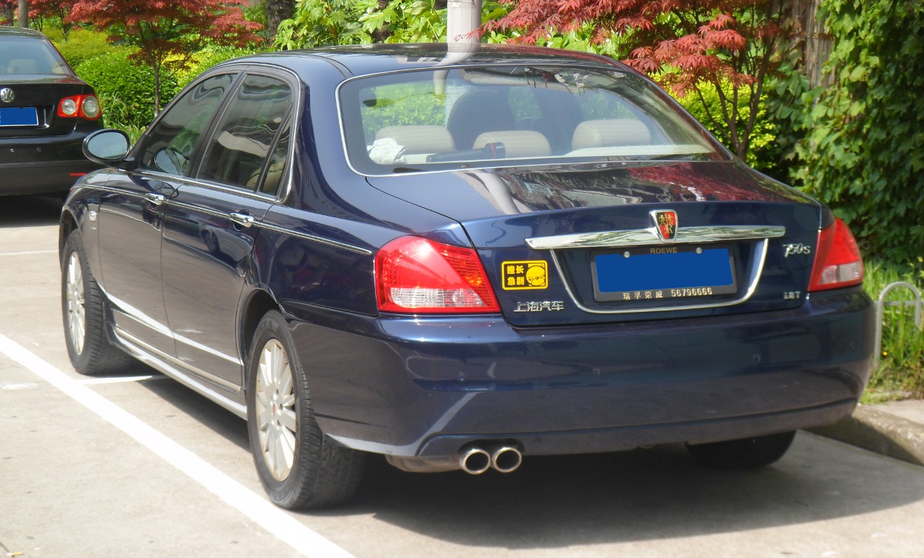 Roewe 750 photographed in Shanghai, China.